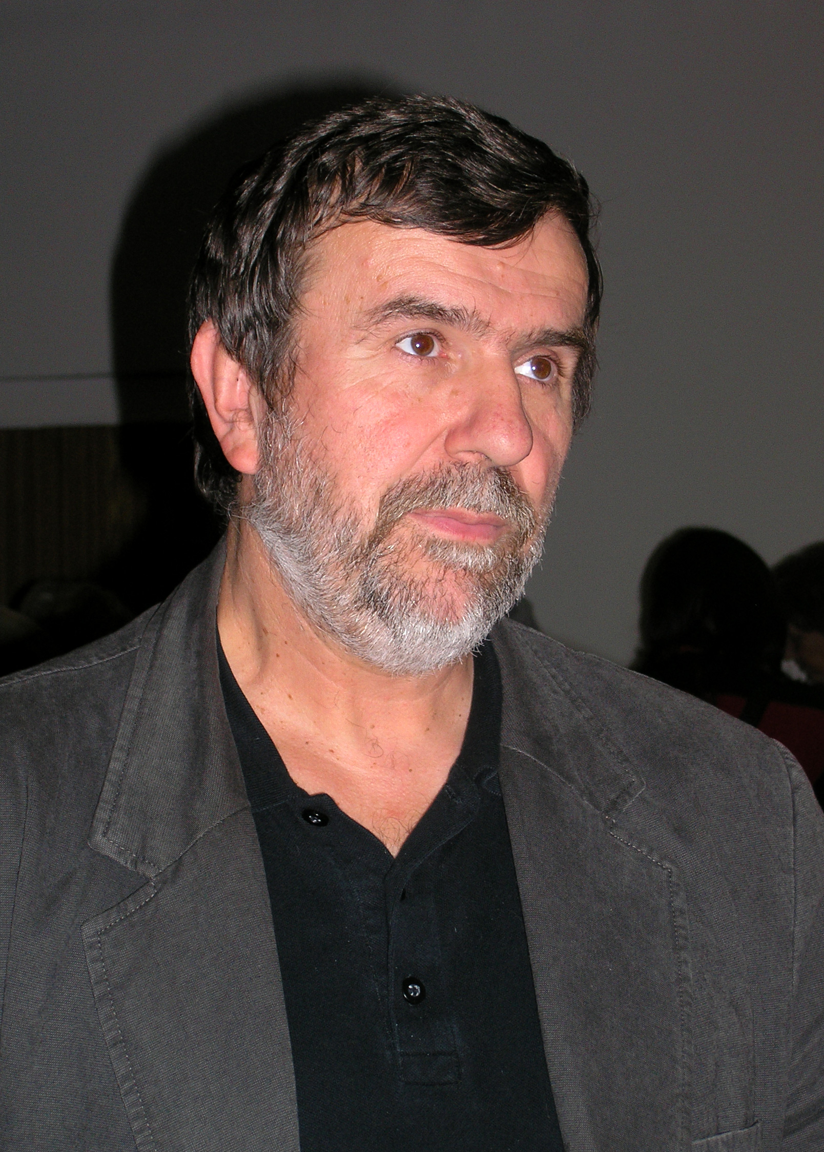 Vlastimil Vondruška, Czech writer, at the Autumn Book Fair in Havlíčkův Brod, Czech Republic